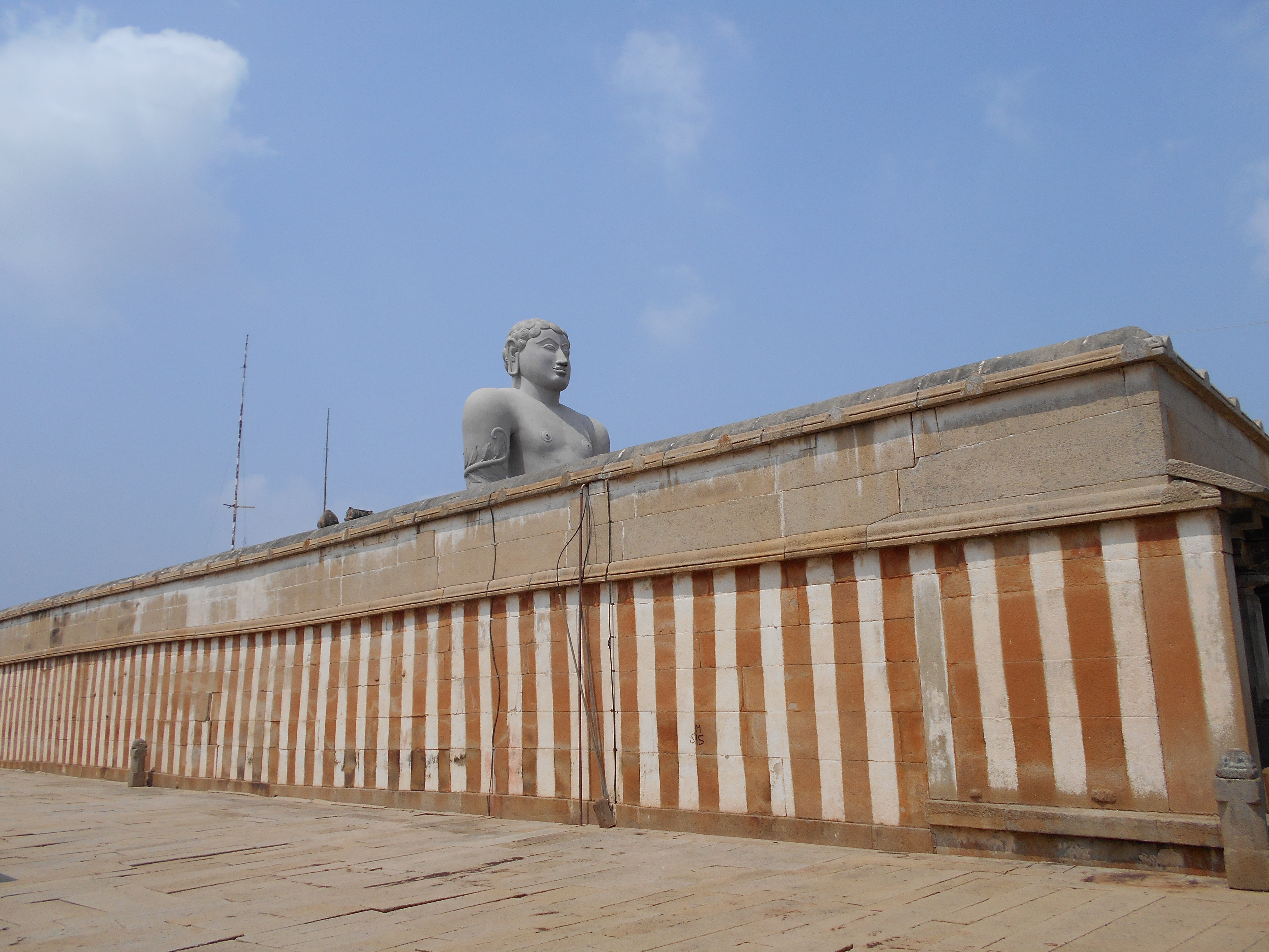 Anothere view of the statue of Bahubali at Shravanabelagola